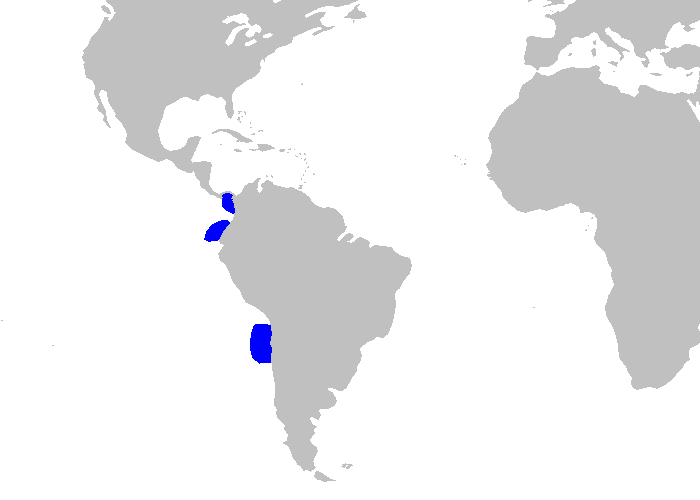 Distribution map for Apristurus nasutus